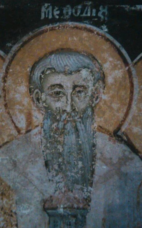 A depiction of the St. Methodius. St. Naum's church in Ohrid.